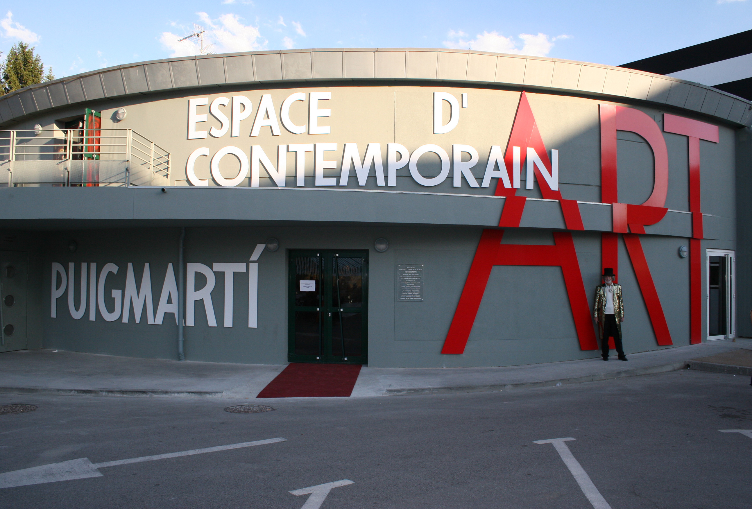 Josep Puigmarti in front of the Espace d'Art in Bourg-madame (France)